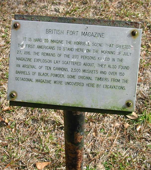 Plaque at Fort Gadsden, Florida. Photograph by J. Williams (Jan 5, 2004).